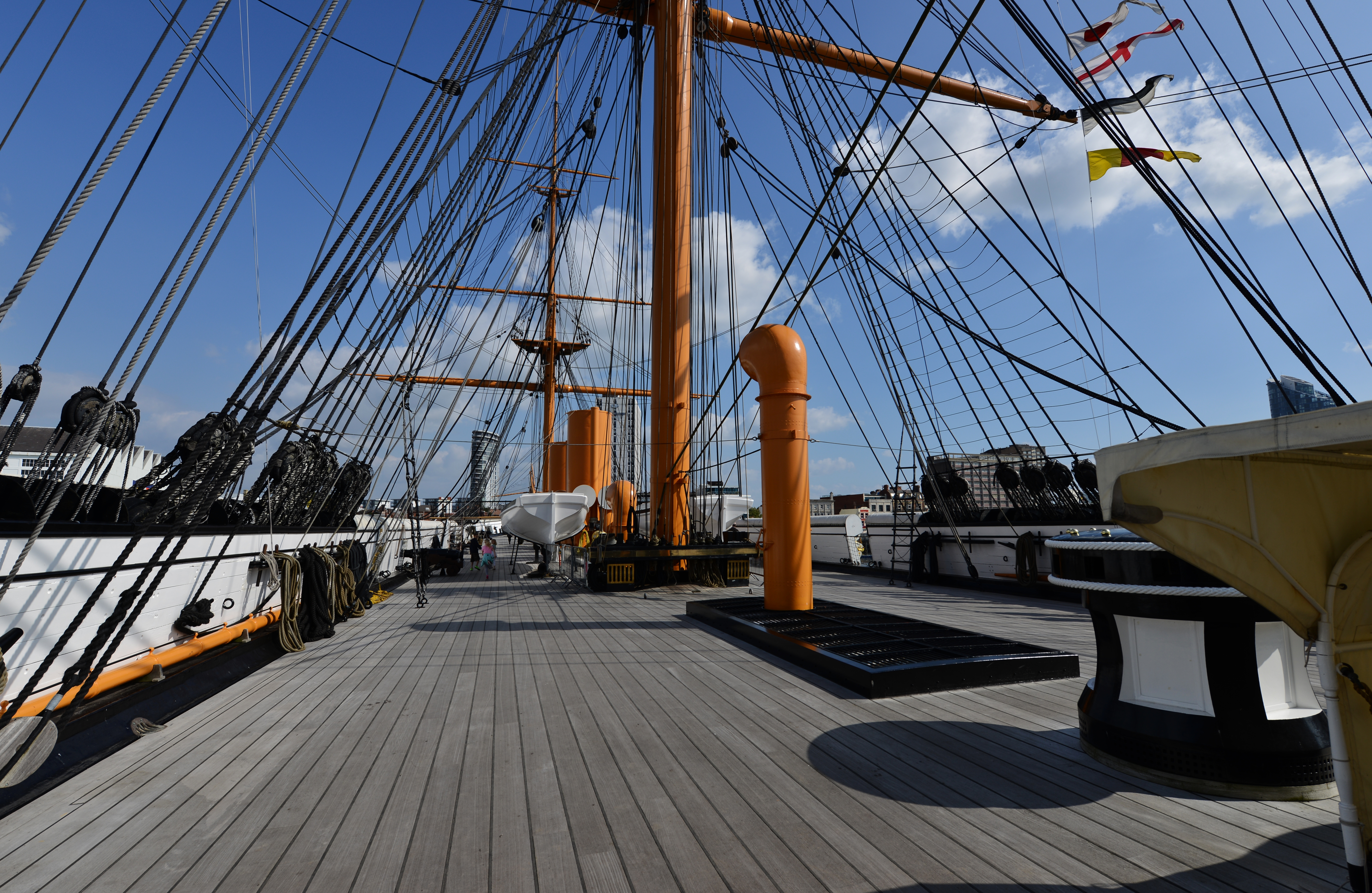 Photo by Michael Garlick